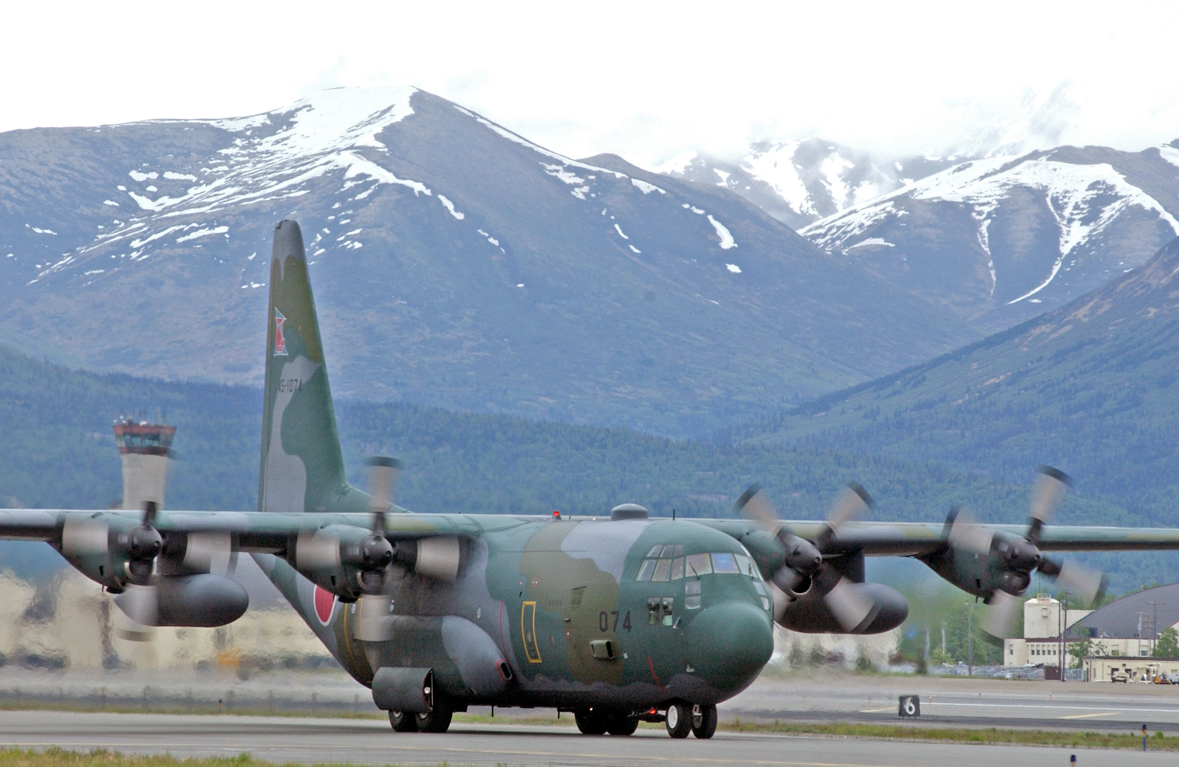 Japan Air Self-Defense Force C-130H. C-130H of the Japan Air Self-Defense Force. Hercules type C-130 that crashed July 15, 1996, at Eindhoven Airport, Eindhoven, the Netherlands, during the Herculesramp.